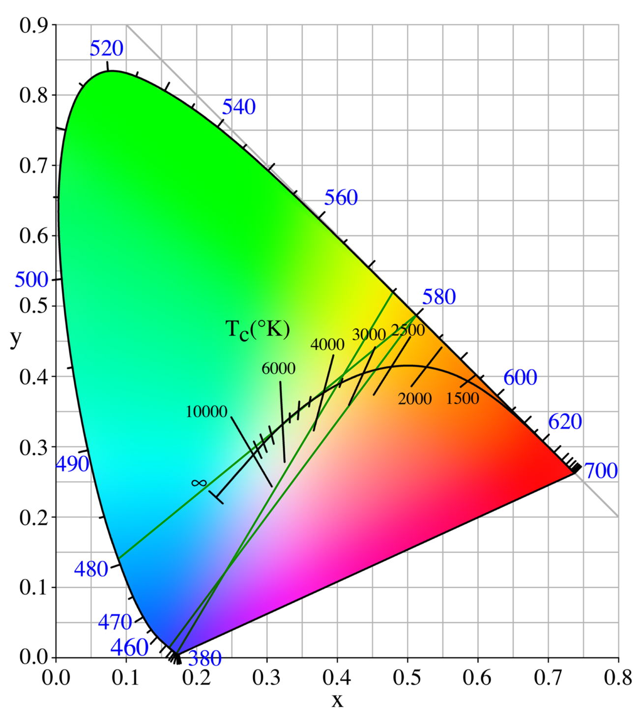 Made it myself by drawing lines on PlanckianLocus.png from commons (GFDL). Three examples are shown: a 580 nm yellow is complementary to a 435 nm indigo with respect to a 2800 K white; a 580 nm yellow is complementary to a 480 nm blue with respect to a 5000 K white; and a 575 nm yellow is complementary to an extreme violet with respect to a 3600 K white.